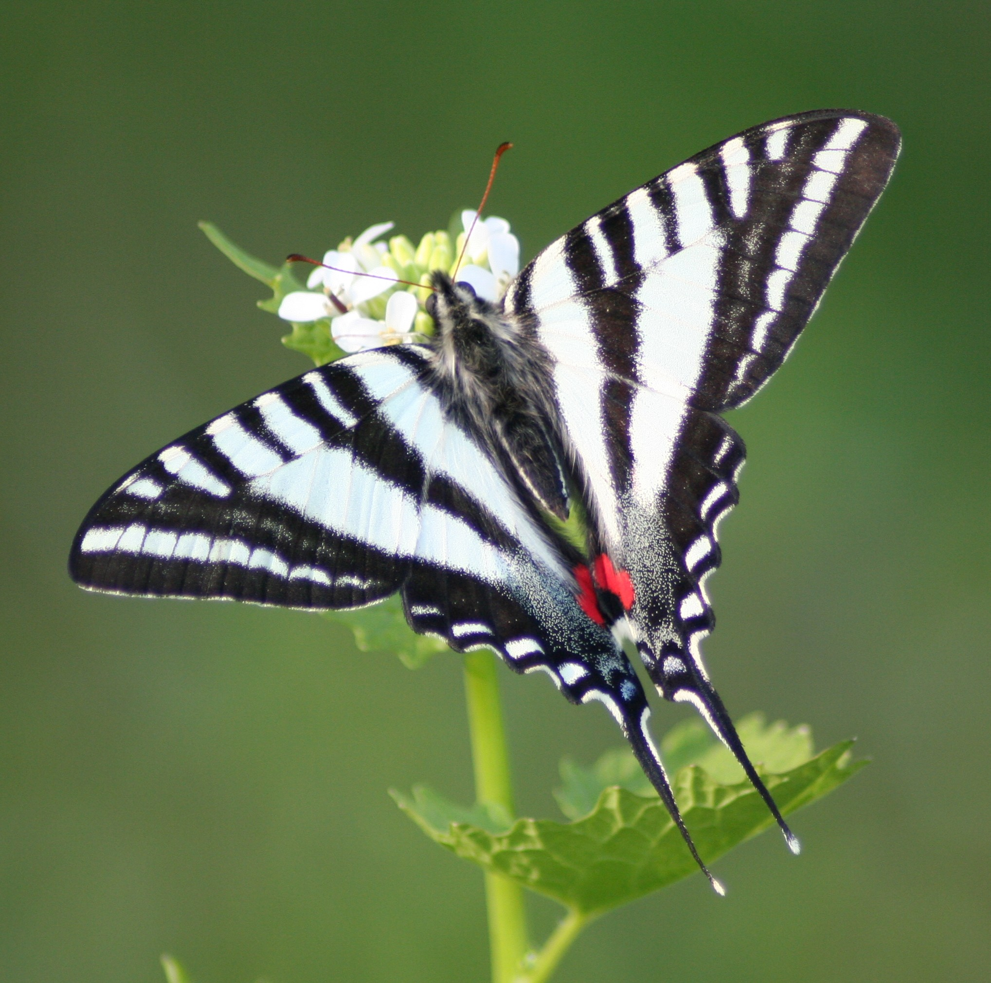 Zebra Swallowtail (spring form), Eurytides marcellus